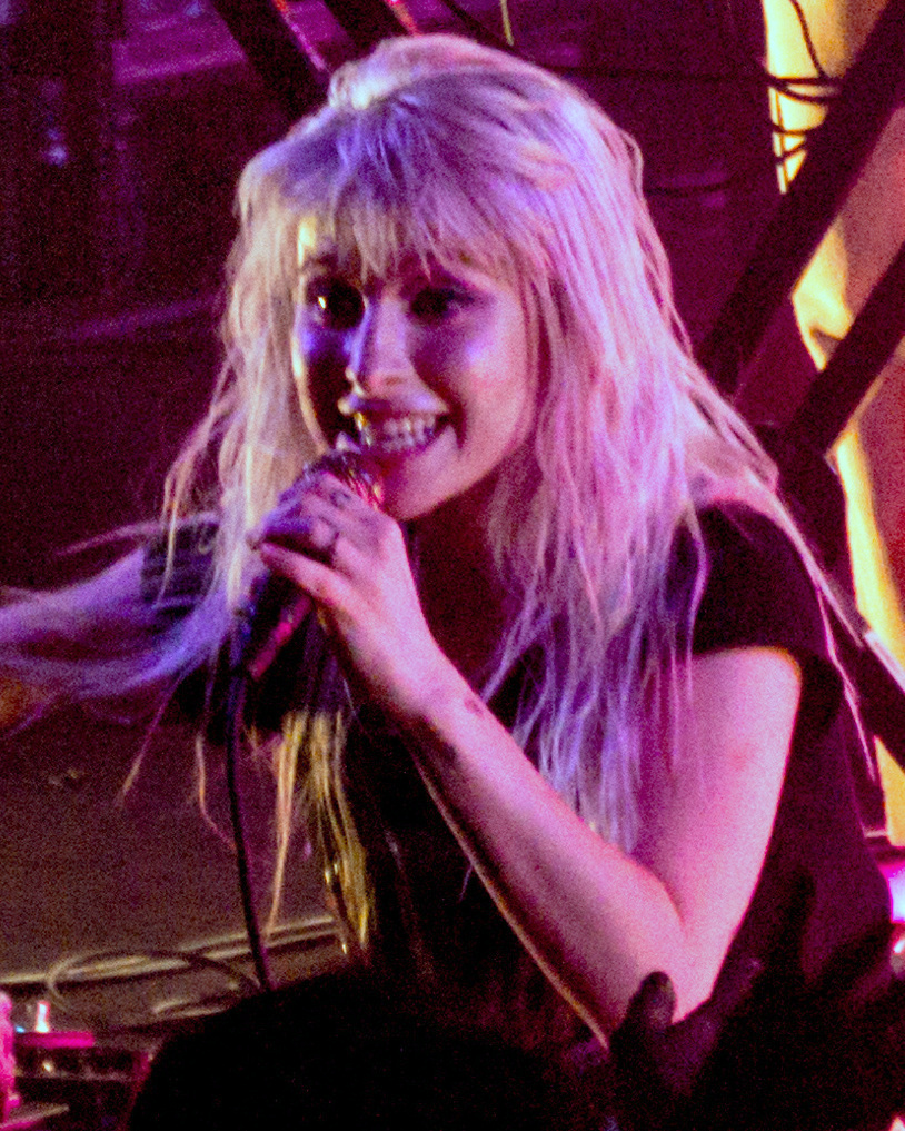 Paramore live concert at Royal Albert Hall, London, UK.